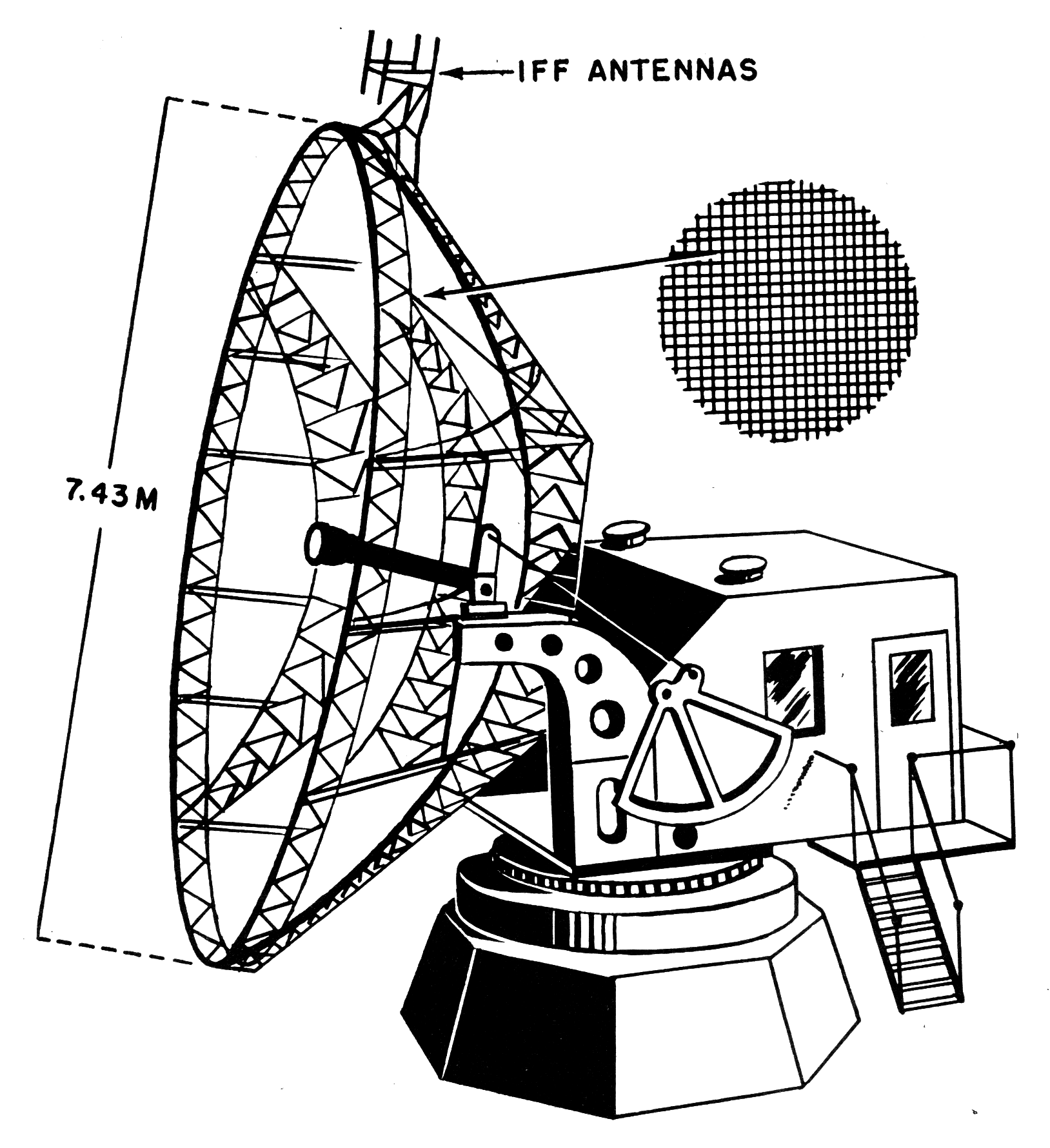 An illustration of a German World War II Giant Wurzburg Radar from TM E 11-219 "Directory of German Radar Equipment".